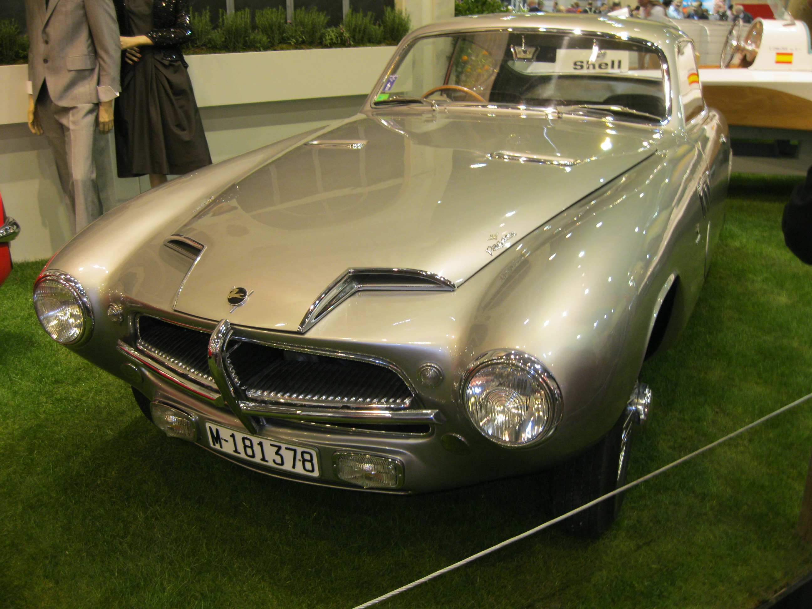 The Pegaso Z-102 was produced in Barcelona between 1951 and 1958. This model was built around 1955.